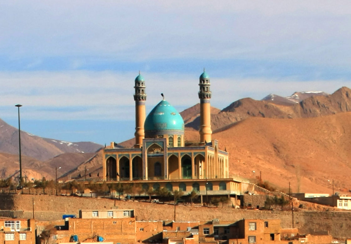 Almahdi Mosque in Mahdishahr - Semnan Province